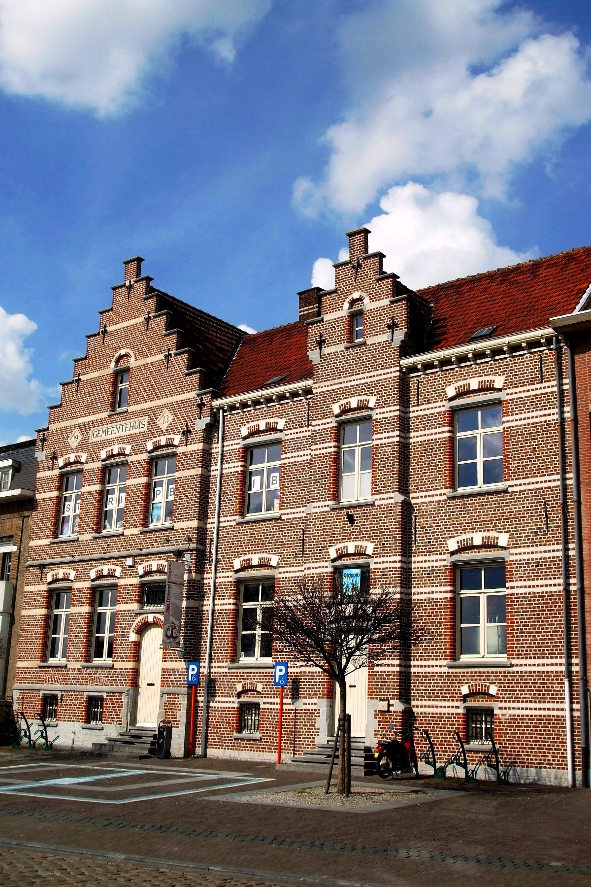 Key words: old town hall, Vossem, Tervuren, Flanders, Belgium